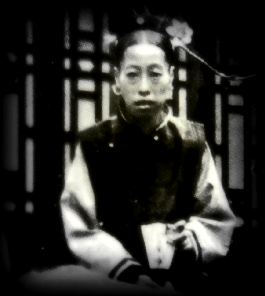 Photo of the last Empress Dowager of China